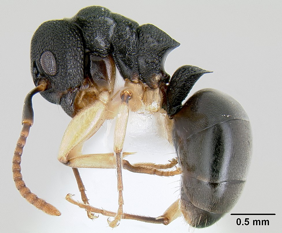 Profile view of ant Dolichoderus lamellosus specimen casent0106159.